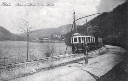 Varese-Luino railway near Ghirla in 1930s